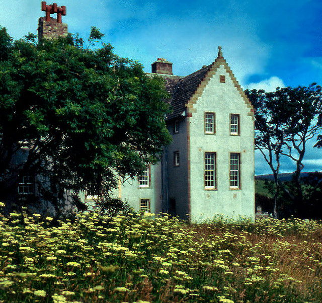 Melsetter House, Hoy, Orkney. A fine Orkney country mansion designed by R. Lethaby. Called by Mae Morris (daughter of William Morris, who provided furniture and interior design) as "a fairy place at the end of the universe ...". South gable seen from the garden.